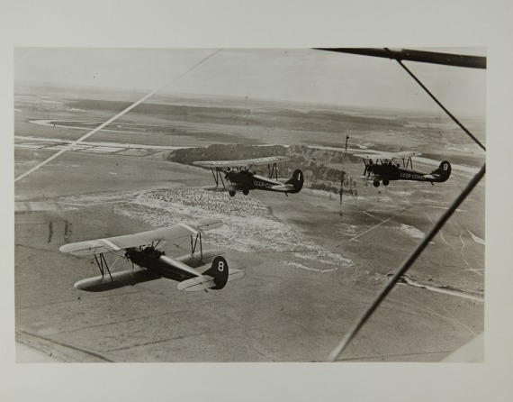 PictionID:6595853 - Catalog:01_00086906 - Title:Polikarpov, R-5 - Filename:01_00086906.TIF - Image from the Charles Daniels Photo Collection album "Seversky, Republic and P-47"----PLEASE TAG this image with any information you know about it, so that we can permanently store this data with the original image file in our Digital Asset Management System.----SOURCE INSTITUTION: San Diego Air and Space Museum Archive